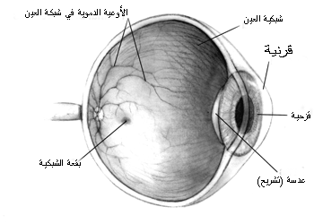 Cross-sectional view in grayscale of right human eye